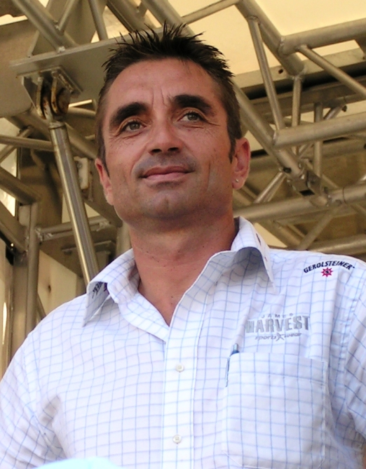 The German team manager and former racing cyclist Christian Henn at the team presentation for the Deutschland Tour 2006 in Düsseldorf, Germany.